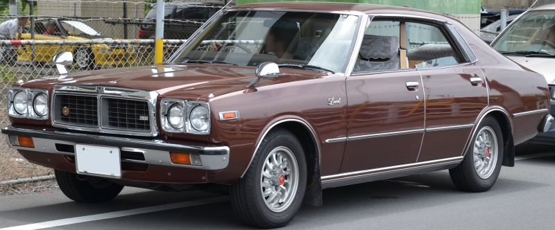 Nissan Laurel 2800 SGL